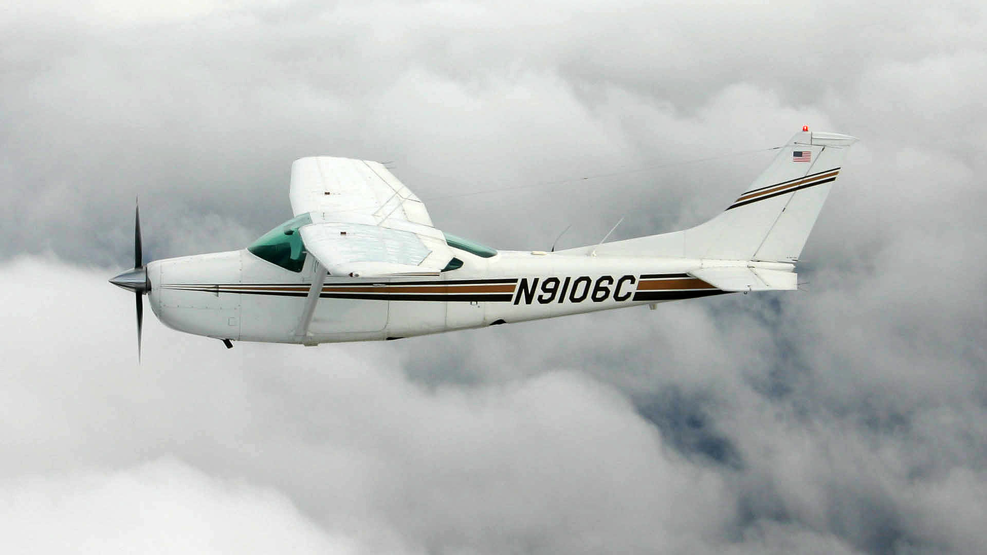 1978 Cessna R182 (Retractable Cessna 182) aircraft in flight over central New Hampshire.